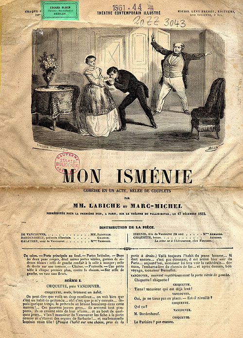 Historic play-bill for the comedy "Mon Isménie", Paris, about 1850.